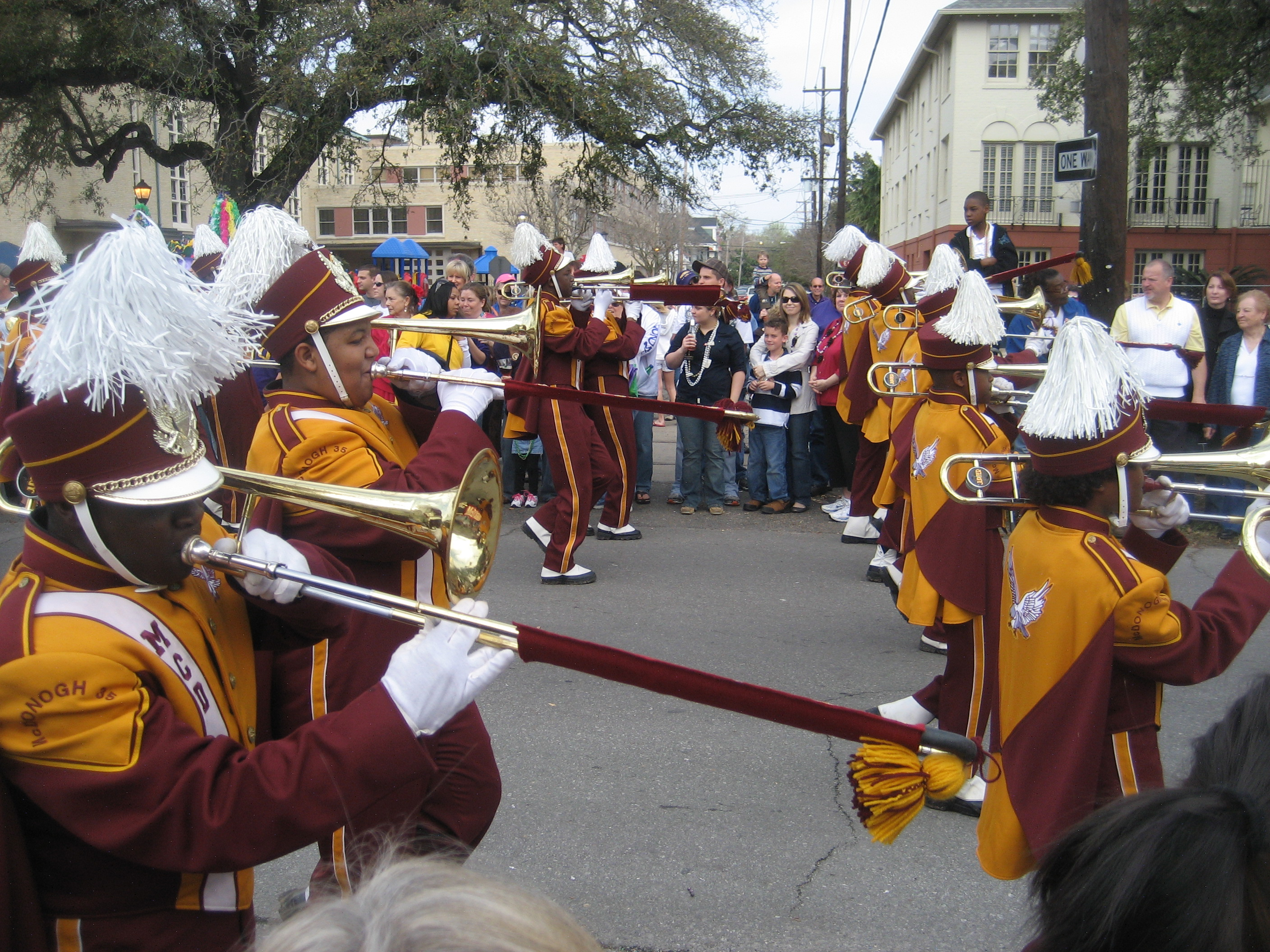 Carnival time in New Orleans. Krewe of Carrollton parade on St. Charles Avenue